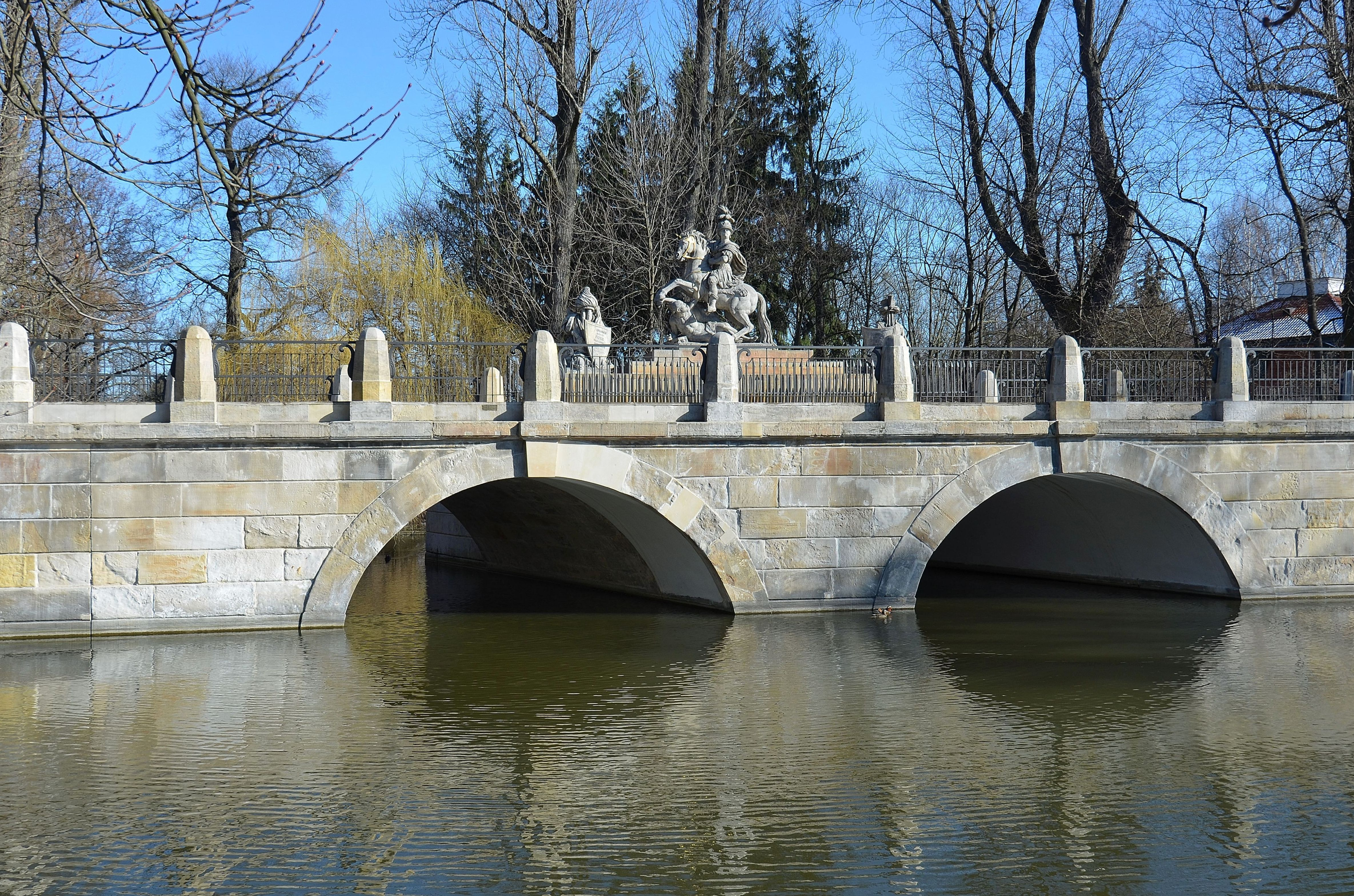 Jan III Sobieski Monument in Warsaw